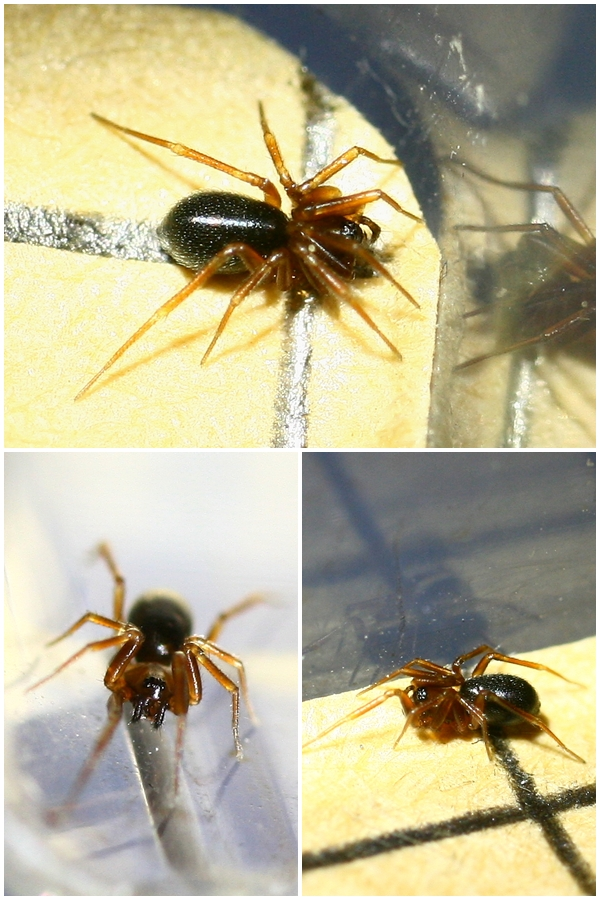 Female Linyphiid, probably Agyneta conigera. Approx 2.0mm long. Tibiae with 2 dorsal spines on all legs. Trichobothria on metatarsus present on 4th leg and positioned c.70% along length on 1st leg. Palps with tarsi not swollen. Bricket Wood Common, Hertfordshire, England, 16th March 2011. More Info... Species Summary from Spider Recording Scheme Map from NBN Gateway Pavouci CZ Jorgen Lissner - female